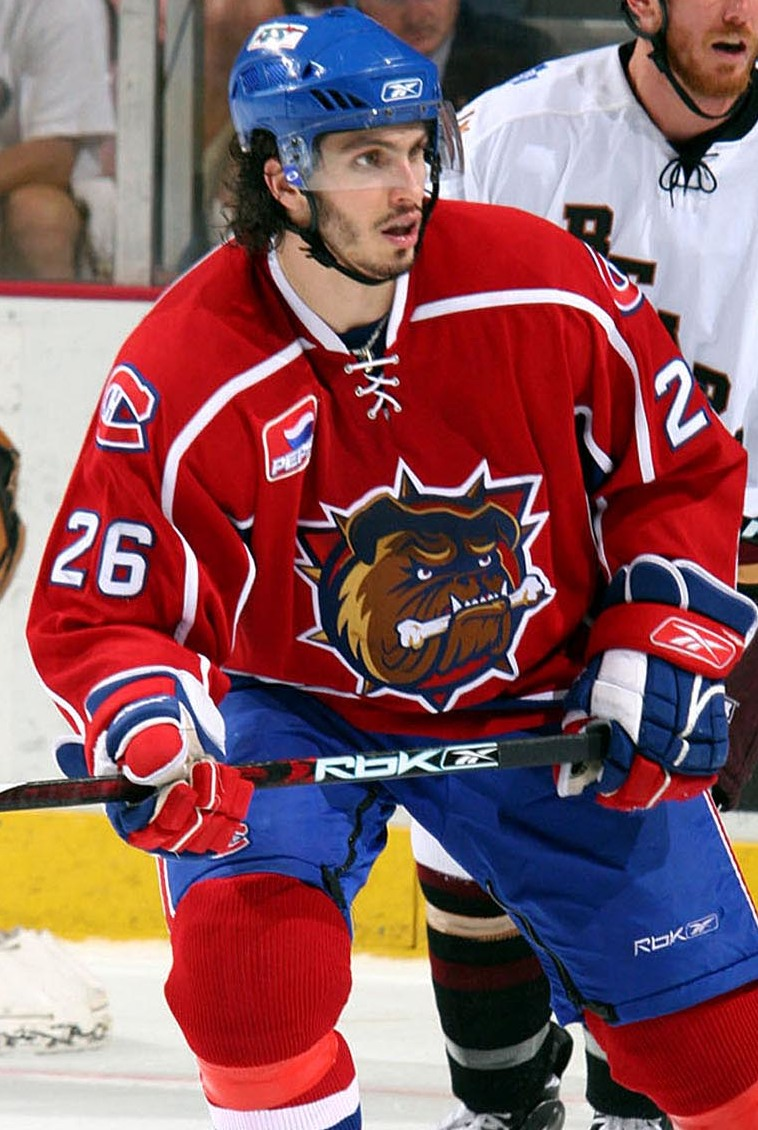 JustSports Photography